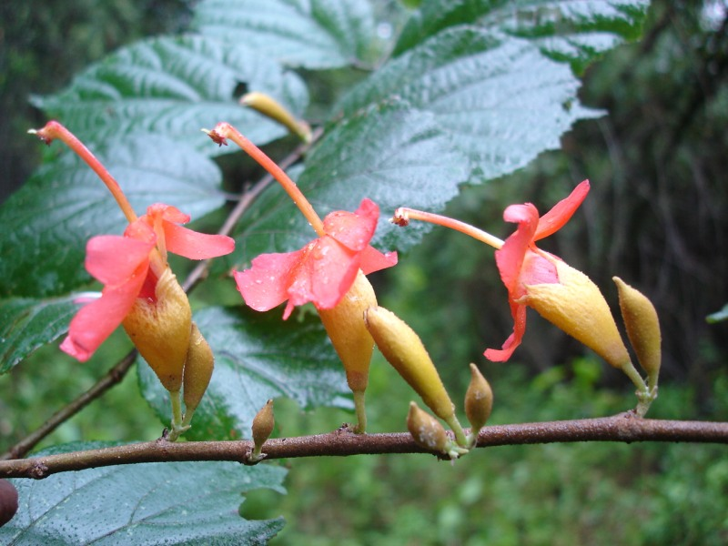 Helicteres isora flowers